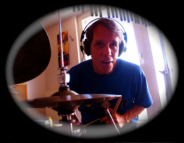 Ernst Bier playing drums / Photo by Wolf Blazejczak